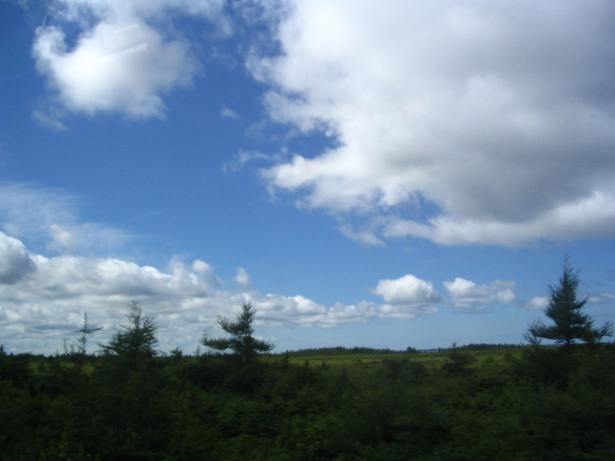 The Lamèque Plain on Lamèque Island, in New Brunswick, Canada.